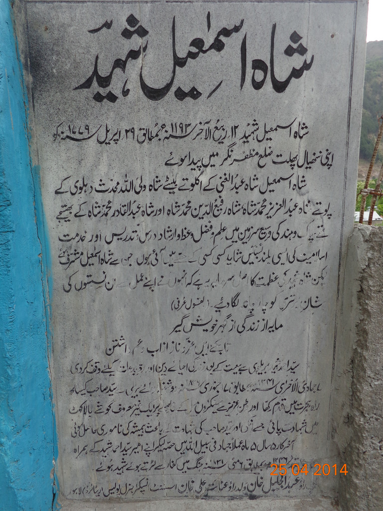 Photographer : Ahmad Abdullah Saqib